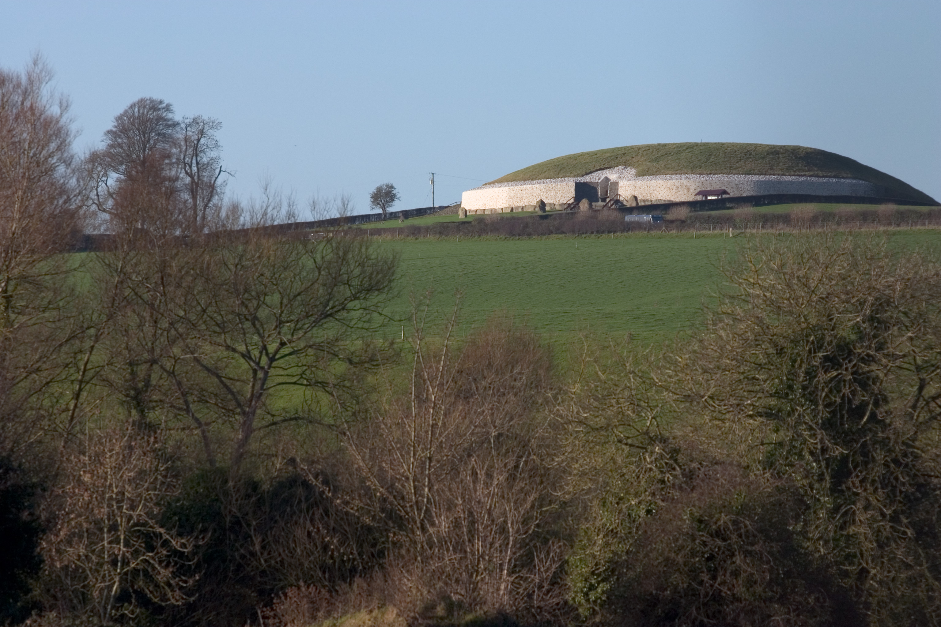 Newgrange at a distance. County Meath, Ireland.Newgrange burial chamber